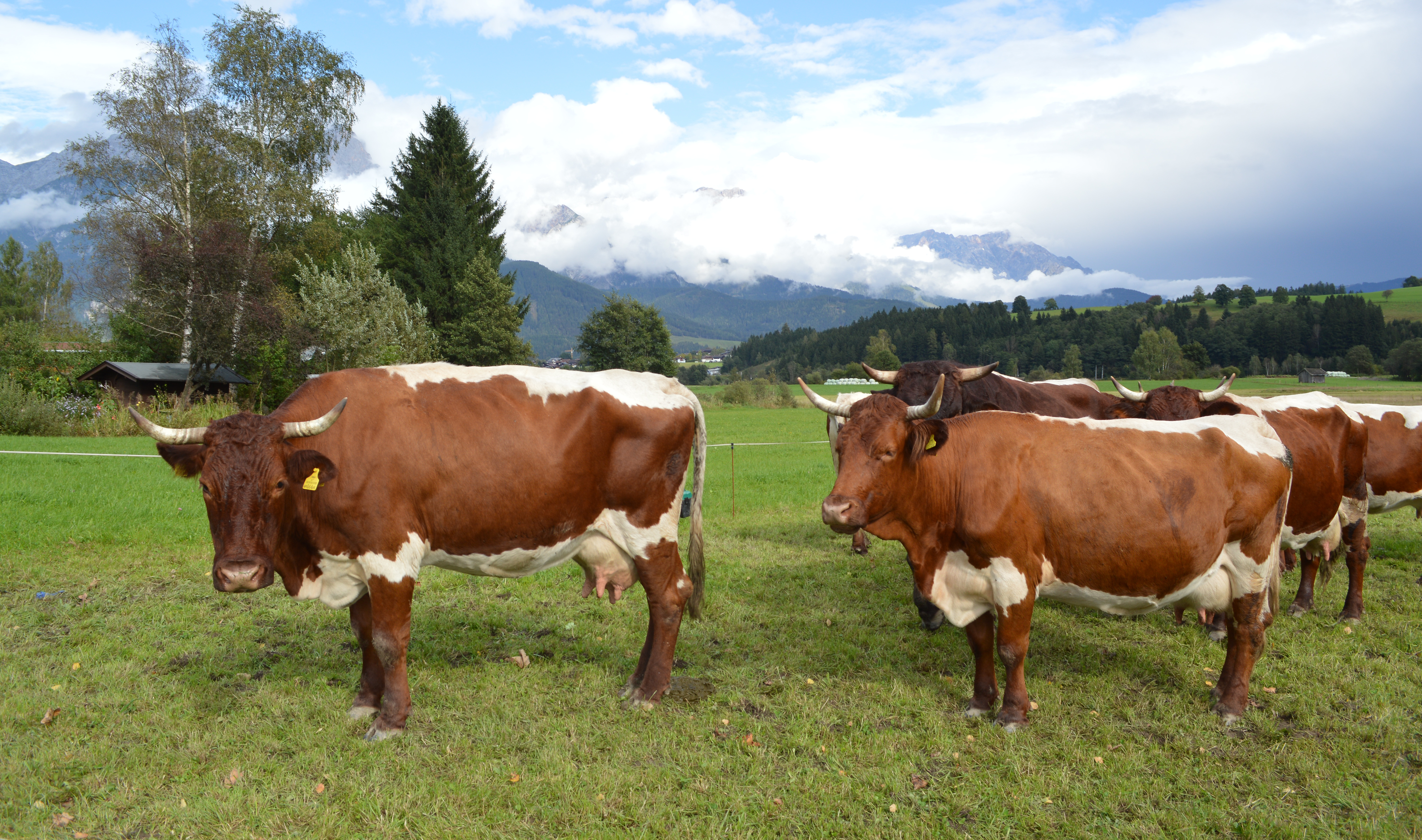 A herd of Pinzgau Cattle with horns - one male and a few females - on a pasture in Haid, Saalfelden, Salzburg (state), Austria